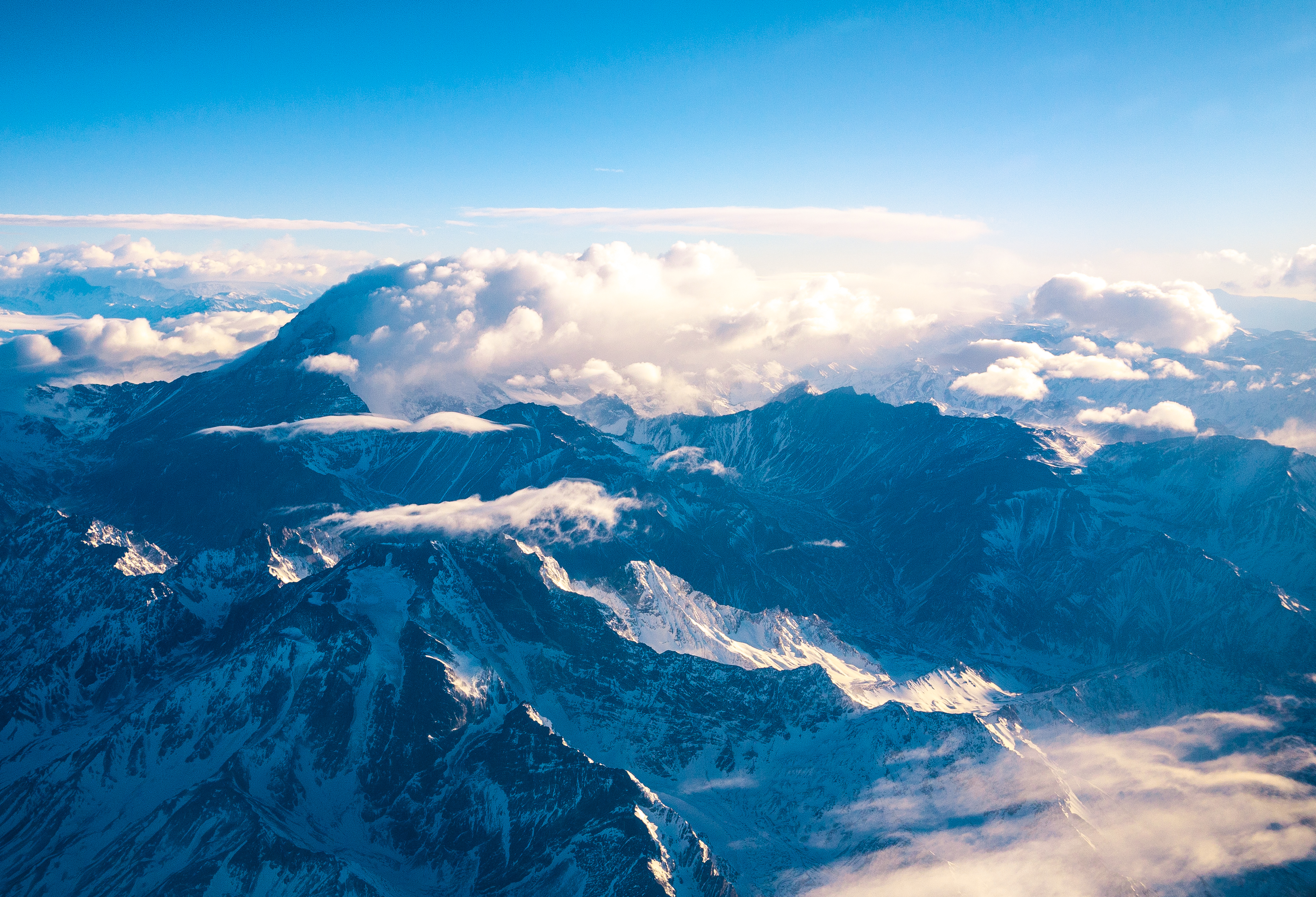 Aconcagua, Argentina